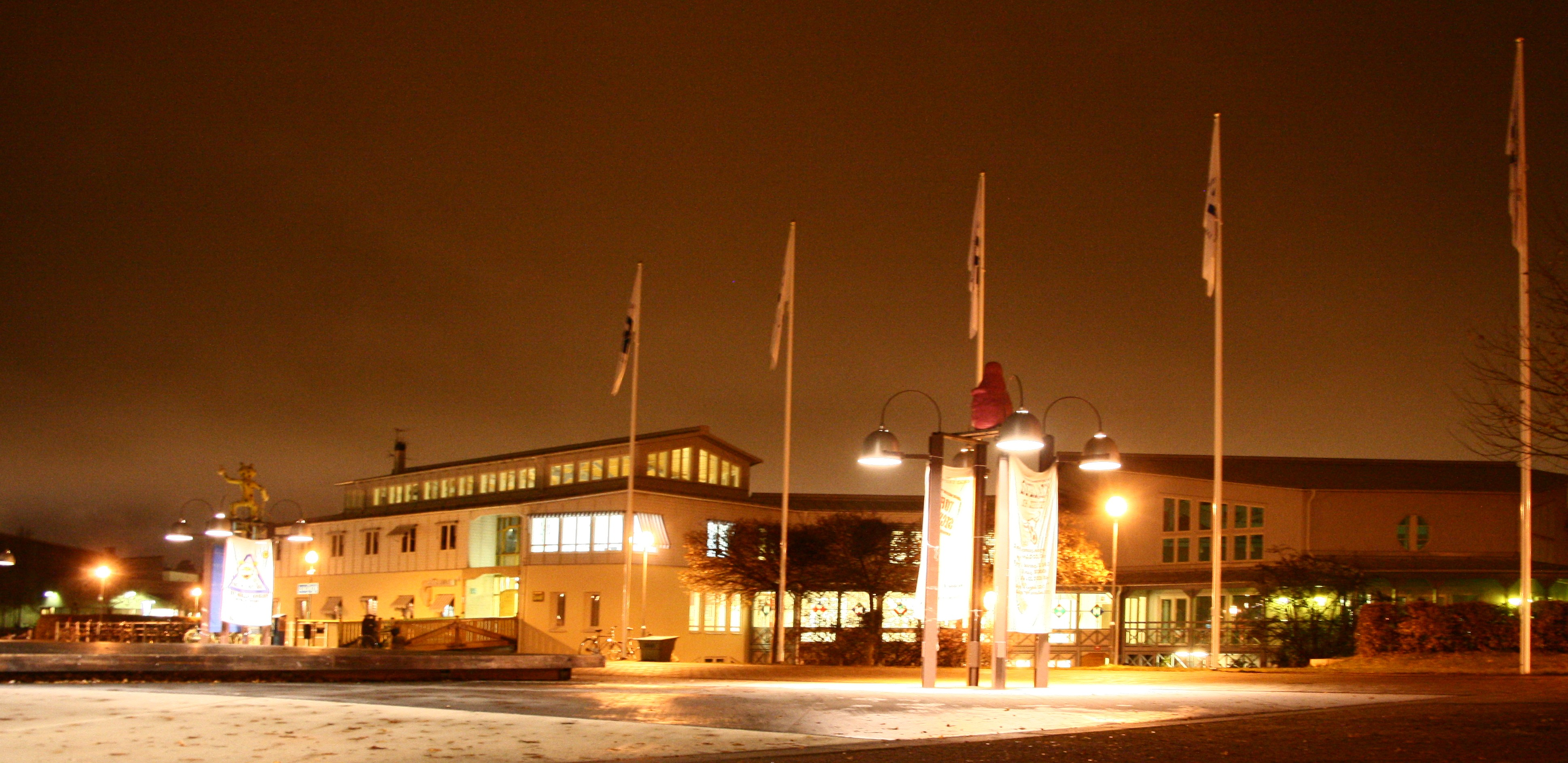 Student union building "Kårallen" at Linköping University, campus Valla, by night.